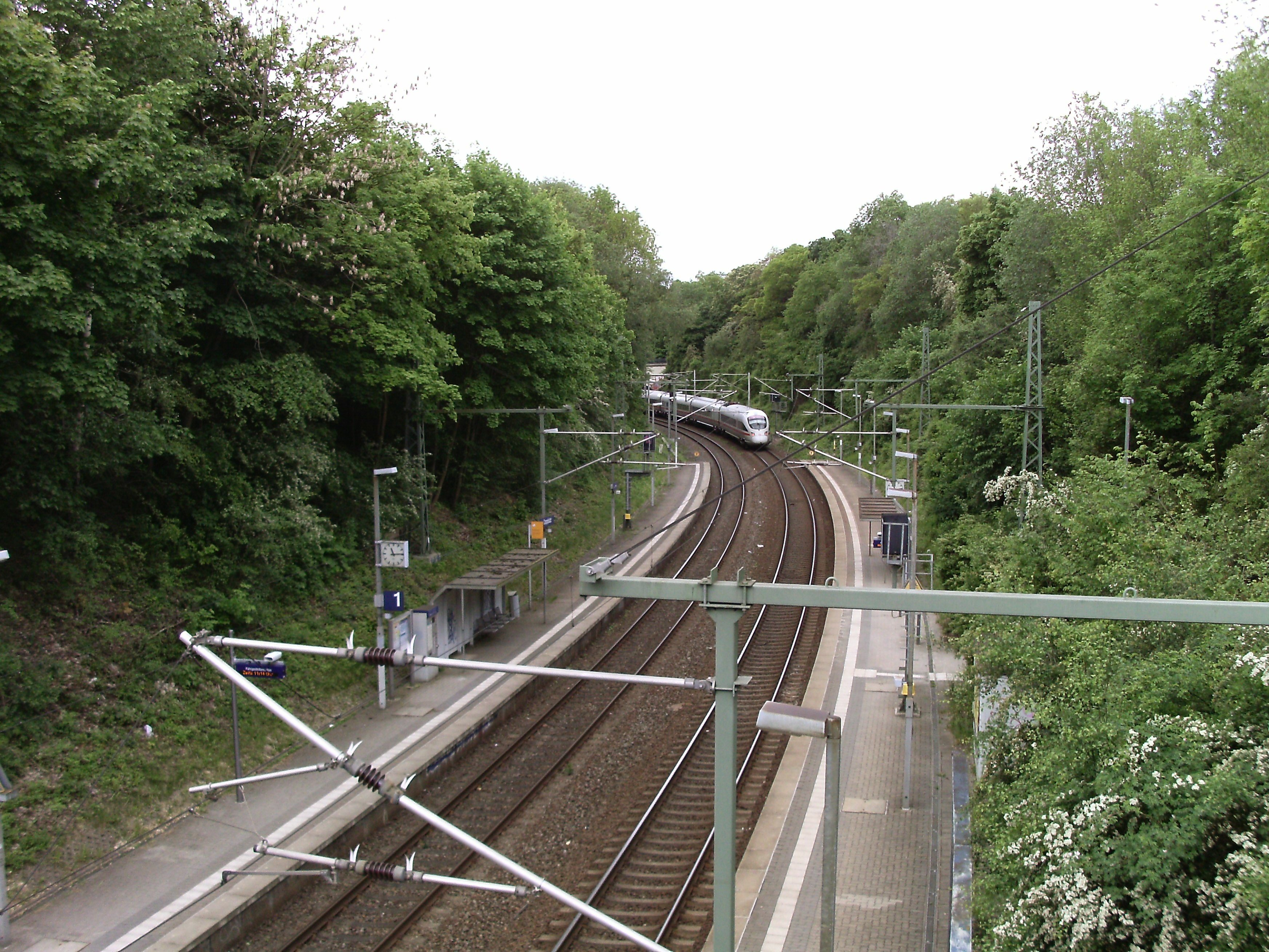 Leipzig Coppiplatz station in the Leipzig city district of Gohlis